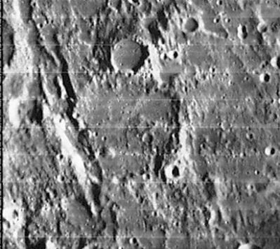 Gylden crater image LOIV 101 H3